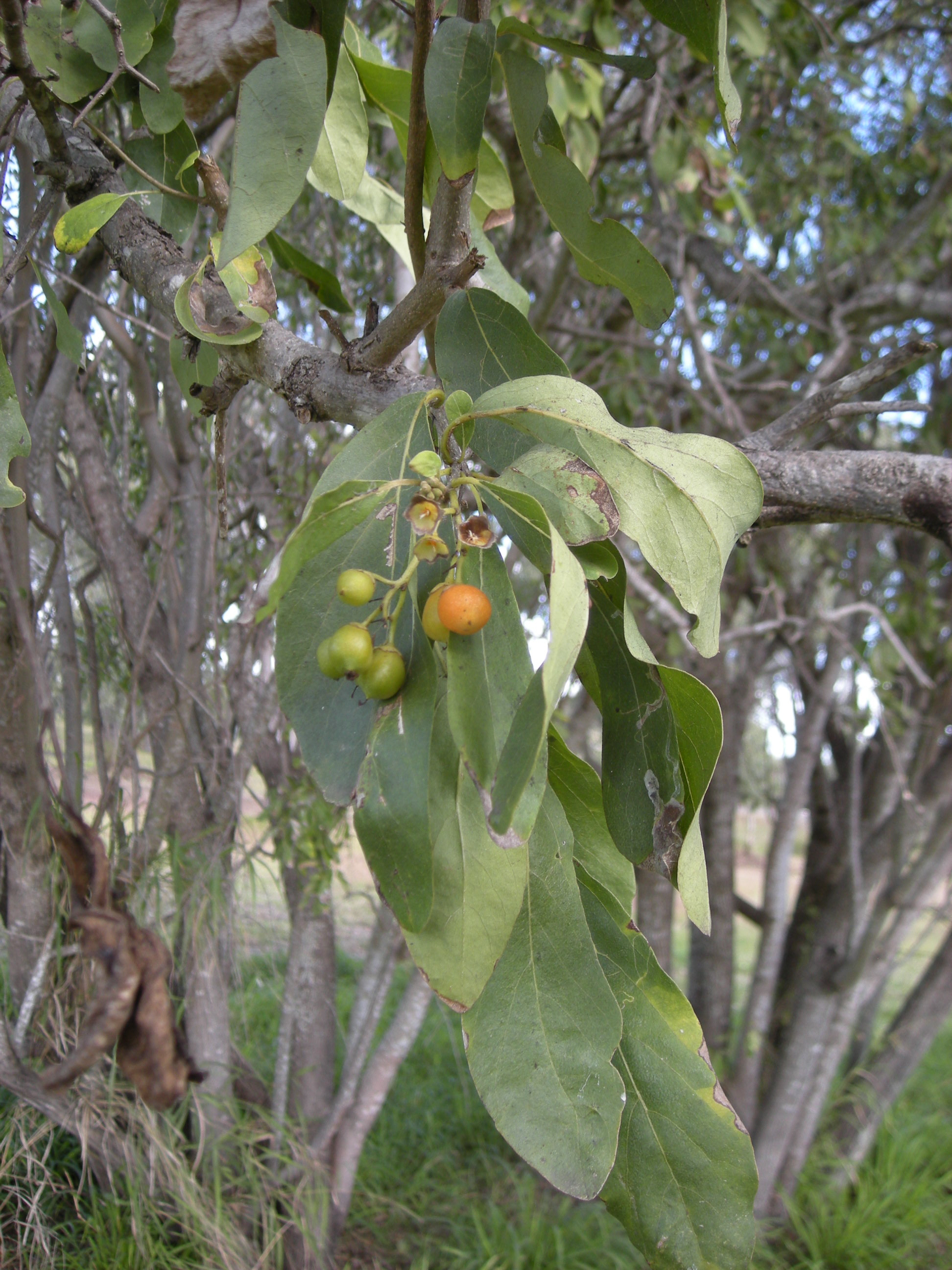 Cordia sinensis foliage and fruit, Central Queensland.